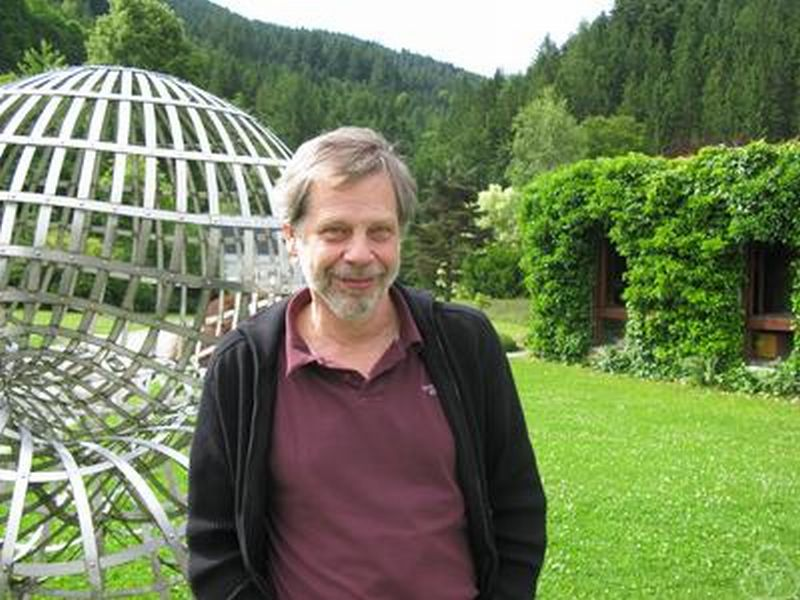 Kay Wingberg, Oberwolfach 2009